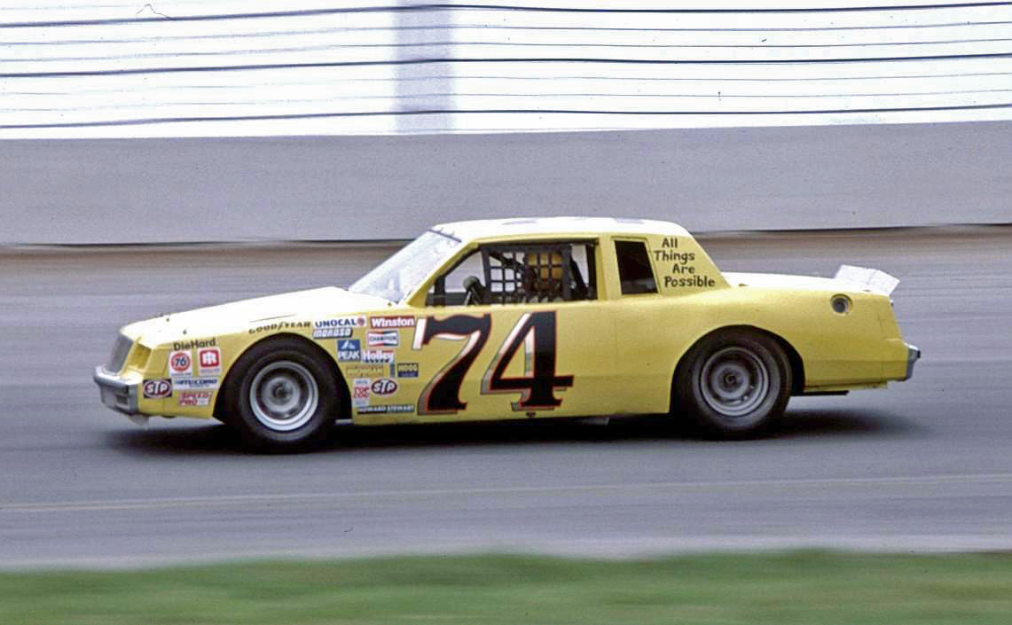 Bobby Wawak racing in 1985 at Pocono. Photo by Ted Van Pelt